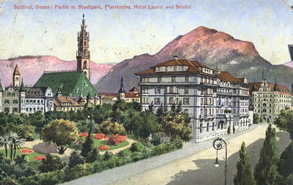 Postcard of the Bozen-Bolzano Parish Church and the Hotels Laurin and Bristol in 1917